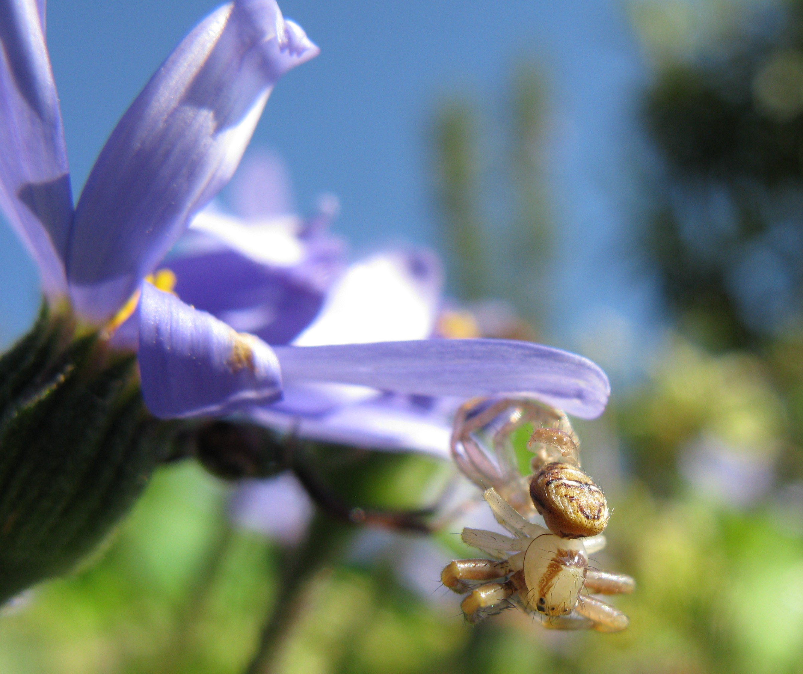 Crab spider female in ecdysis; Species Synema decens, Family Thomisidae. Note legs of male waiting in background. Photo near Somerset West, South Africa.